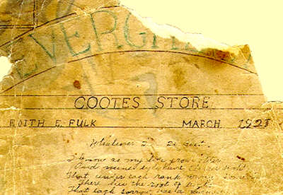 Cootes Store magazine